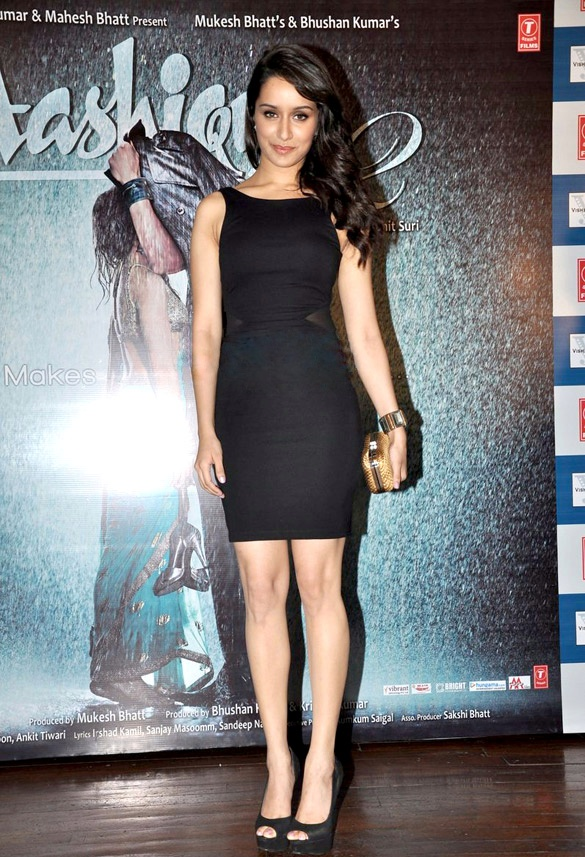 Shraddha Kapoor at the success bash of 'Aashiqui 2'